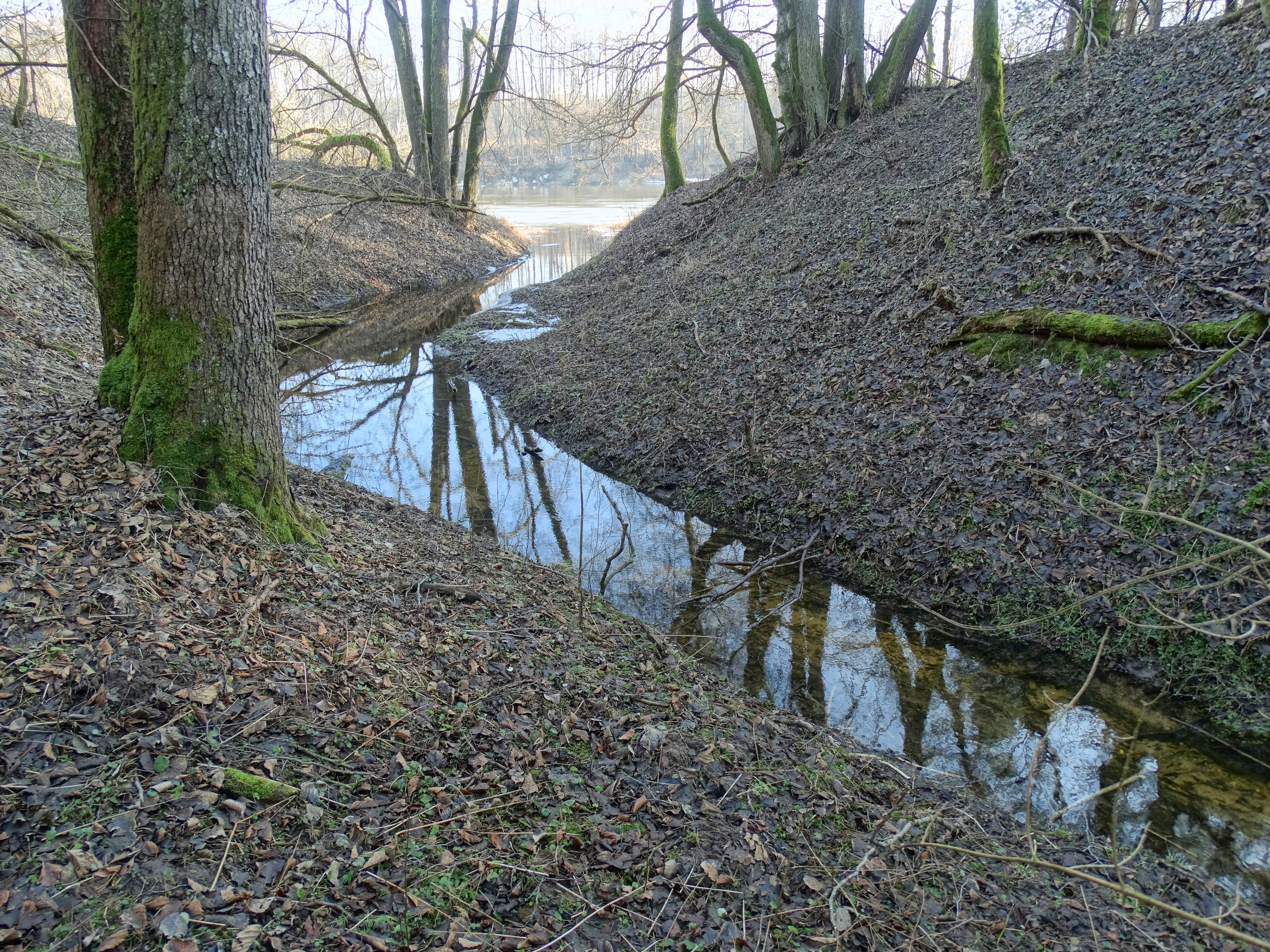 Snaigupėlė rivulet, by Druskininkai, Lithuania